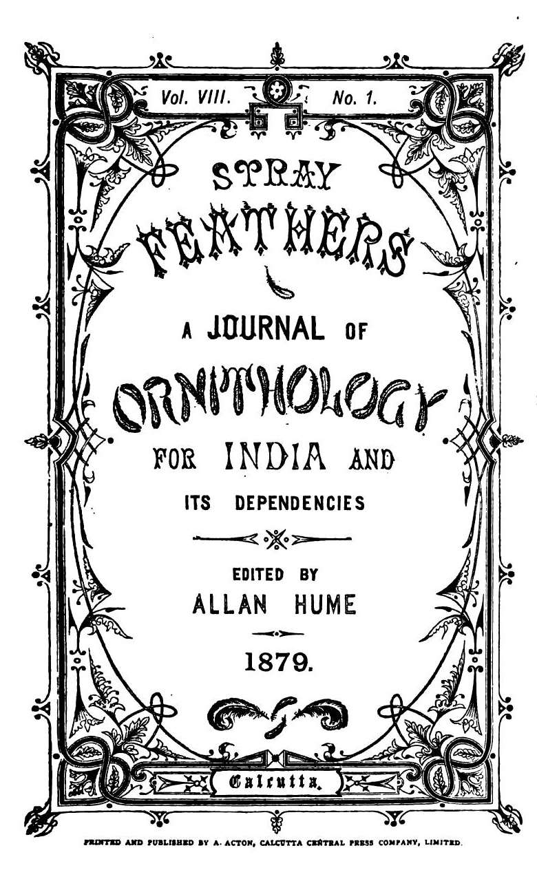 Cover of Stray Feathers, the journal started by Allan Octavian Hume